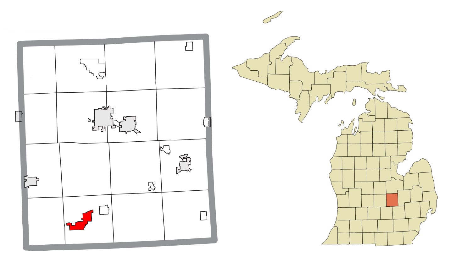 Perry, MI